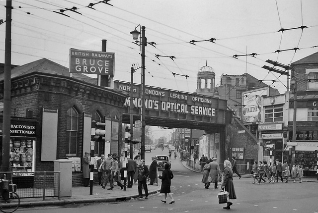 Bruce Grove Station, entrance and view under bridge along Bruce Grove. View NW, along Bruce Grove from Tottenham High Road, with line over bridge coming from Liverpool St. (left) and going towards Seven Sisters and Enfield Town, electrified in November 1960.